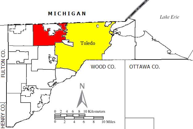 Made by the US Census and modified by myself